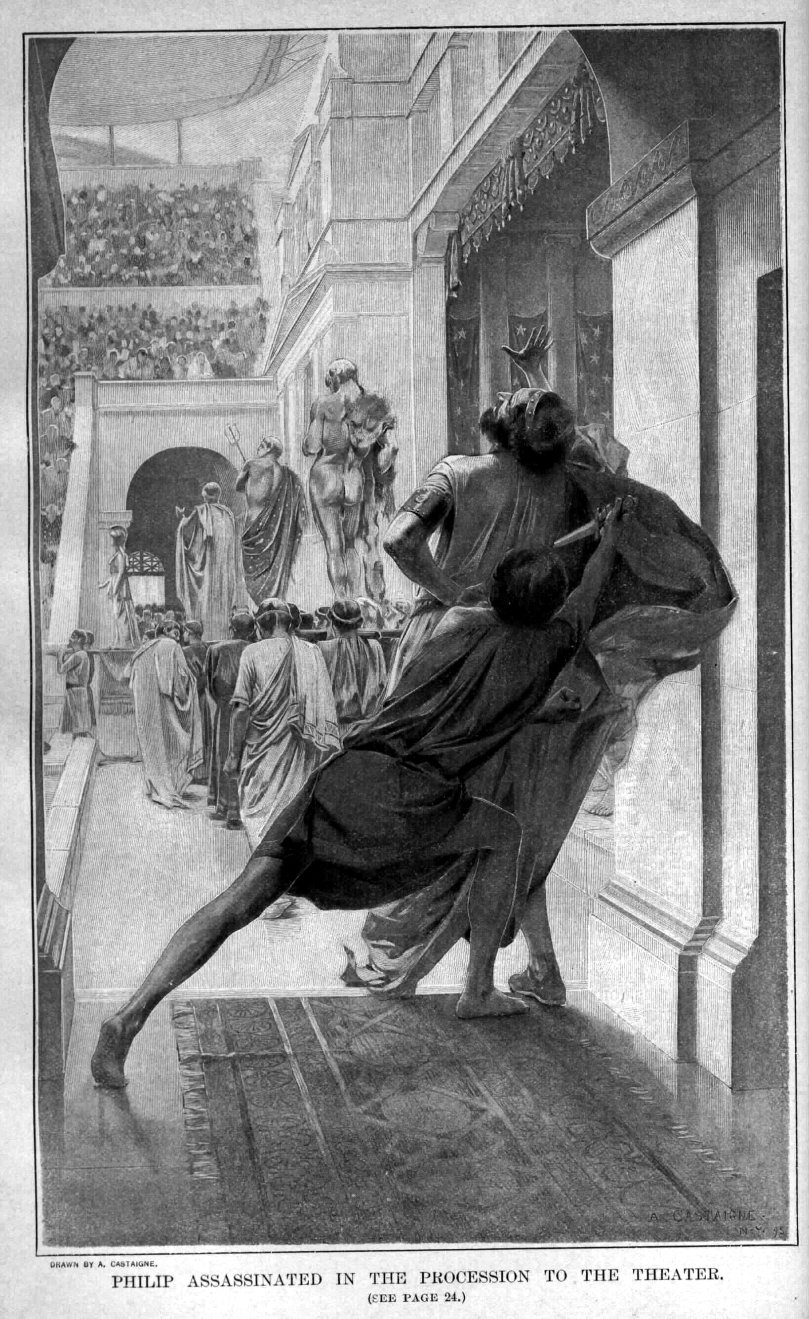 Pausanius assassinates Philip during the procession into the theatre